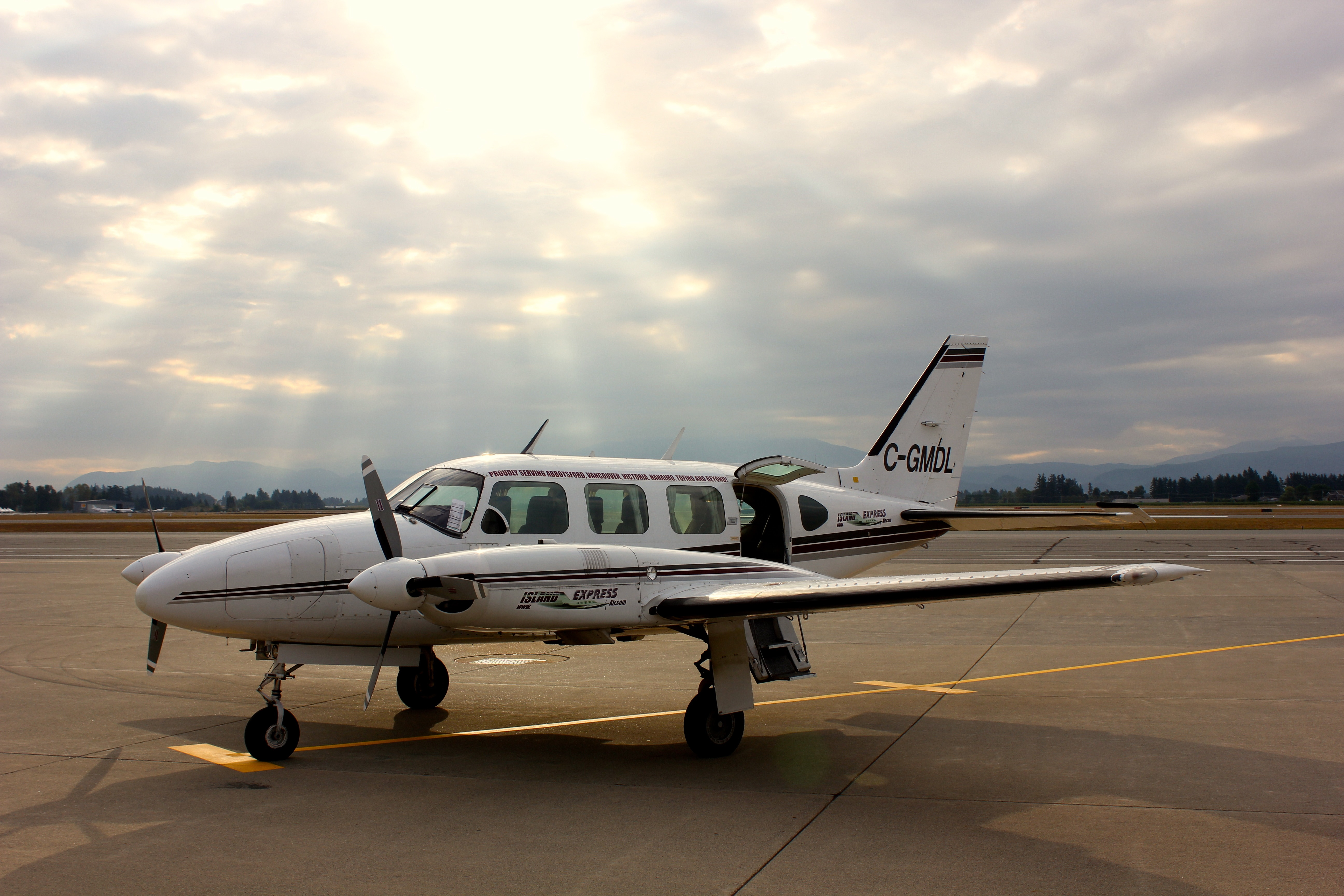 C-GMDL PA-31 Island Express Air flight to Victoria from Abbotsford on Aug. 12, 2013